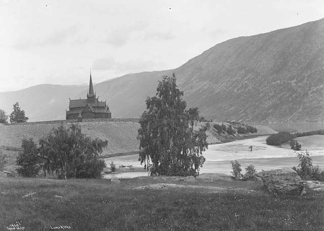 Lom stavkyrkje (Lom stave church, Lom, Oppland, Norway). Picture taken in the periode 1880 - 1890.